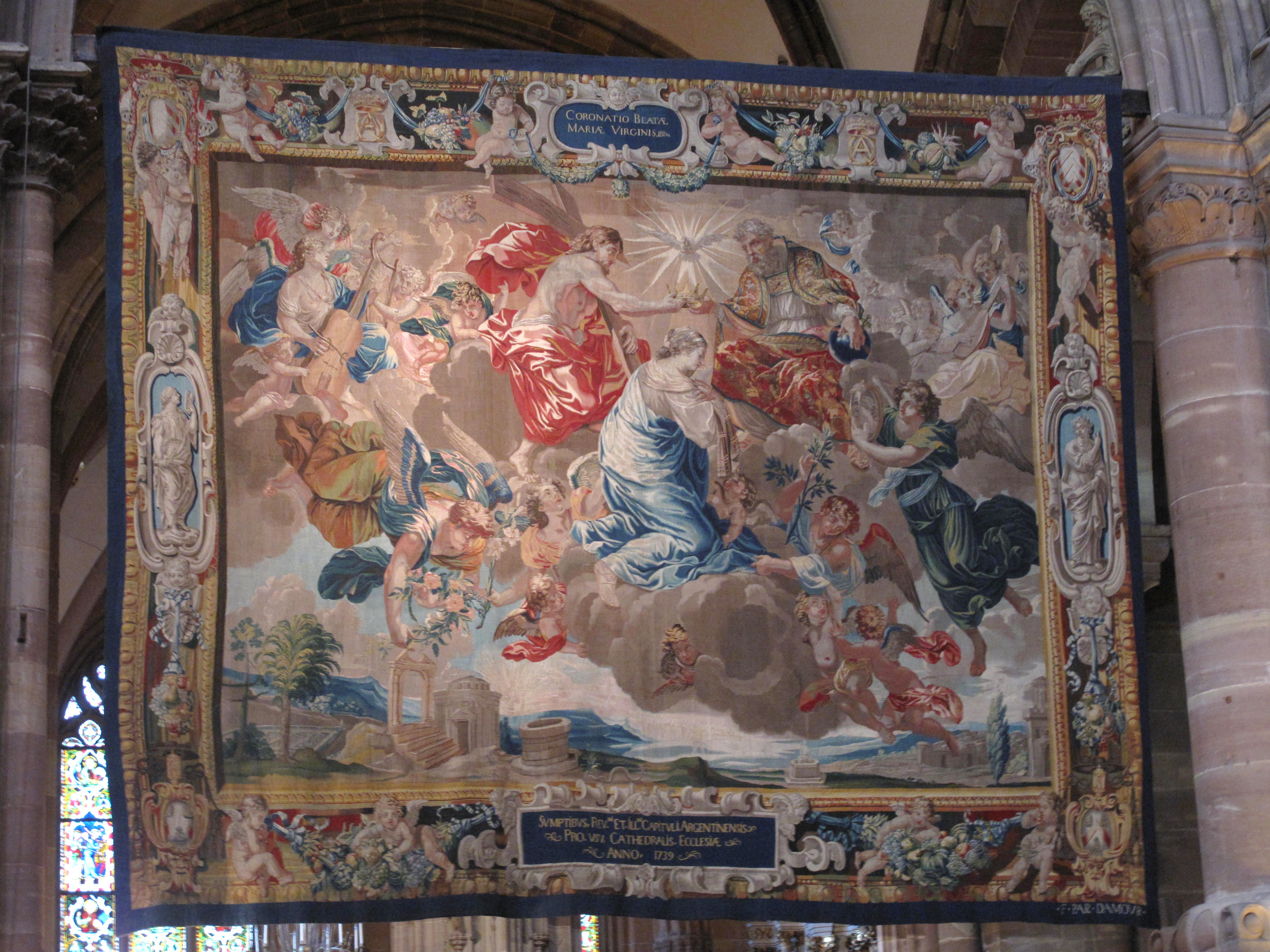 Tapestry of Coronation of the Virgin in the nave of the cathedral of Strasbourg, France